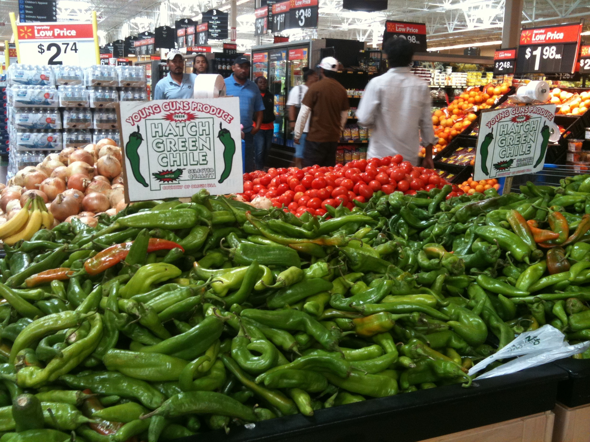 Hatch chile or Hatch pepper refers to varieties of species of the genus Capsicum which are grown in the Hatch Valley, an area stretching north and south along the Rio Grande from Arrey, New Mexico, in the north to Tonuco Mountain to the south of Hatch, New Mexico.